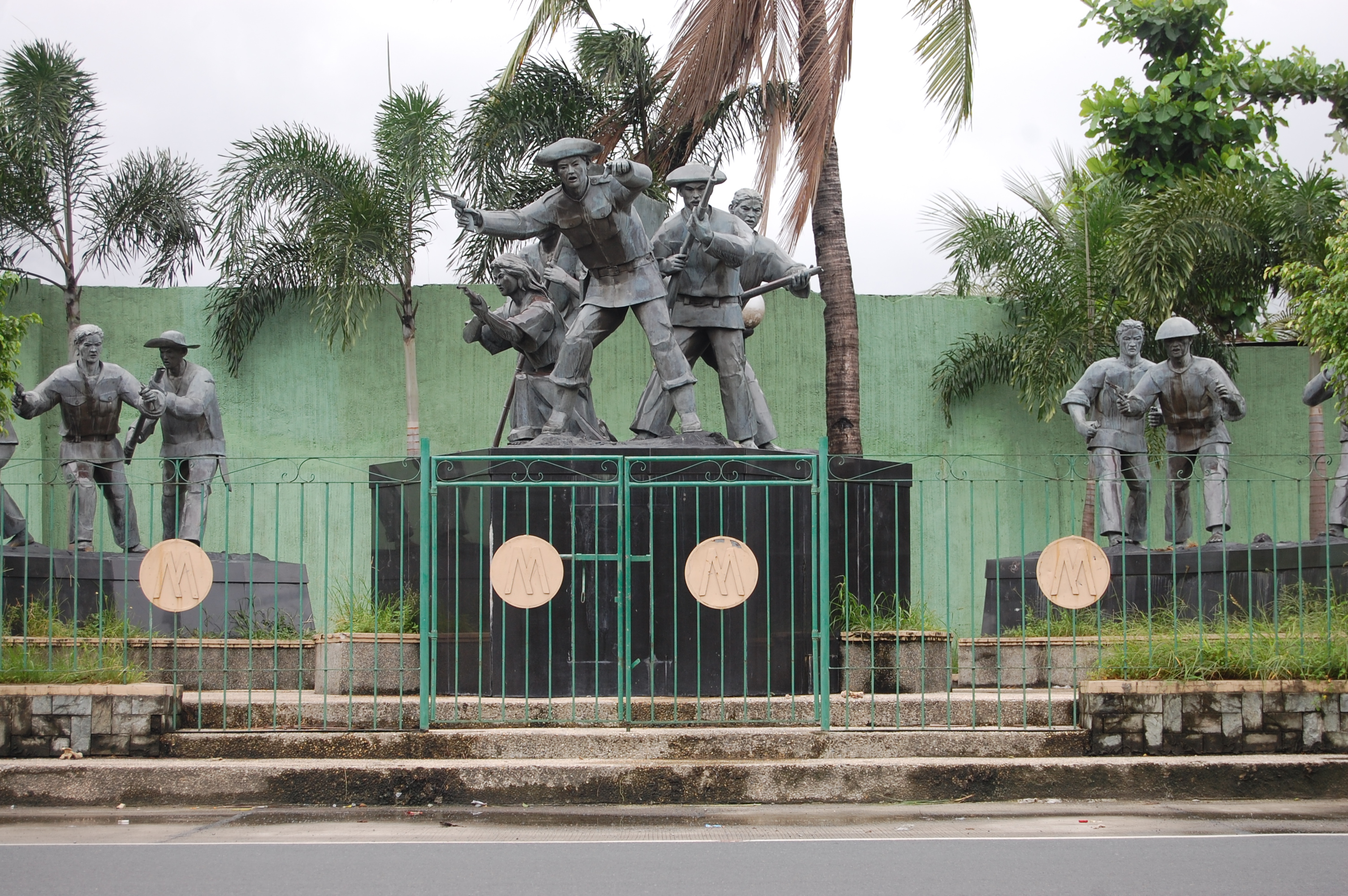 this the monument of the katipuneros who fight for the philippines fredome